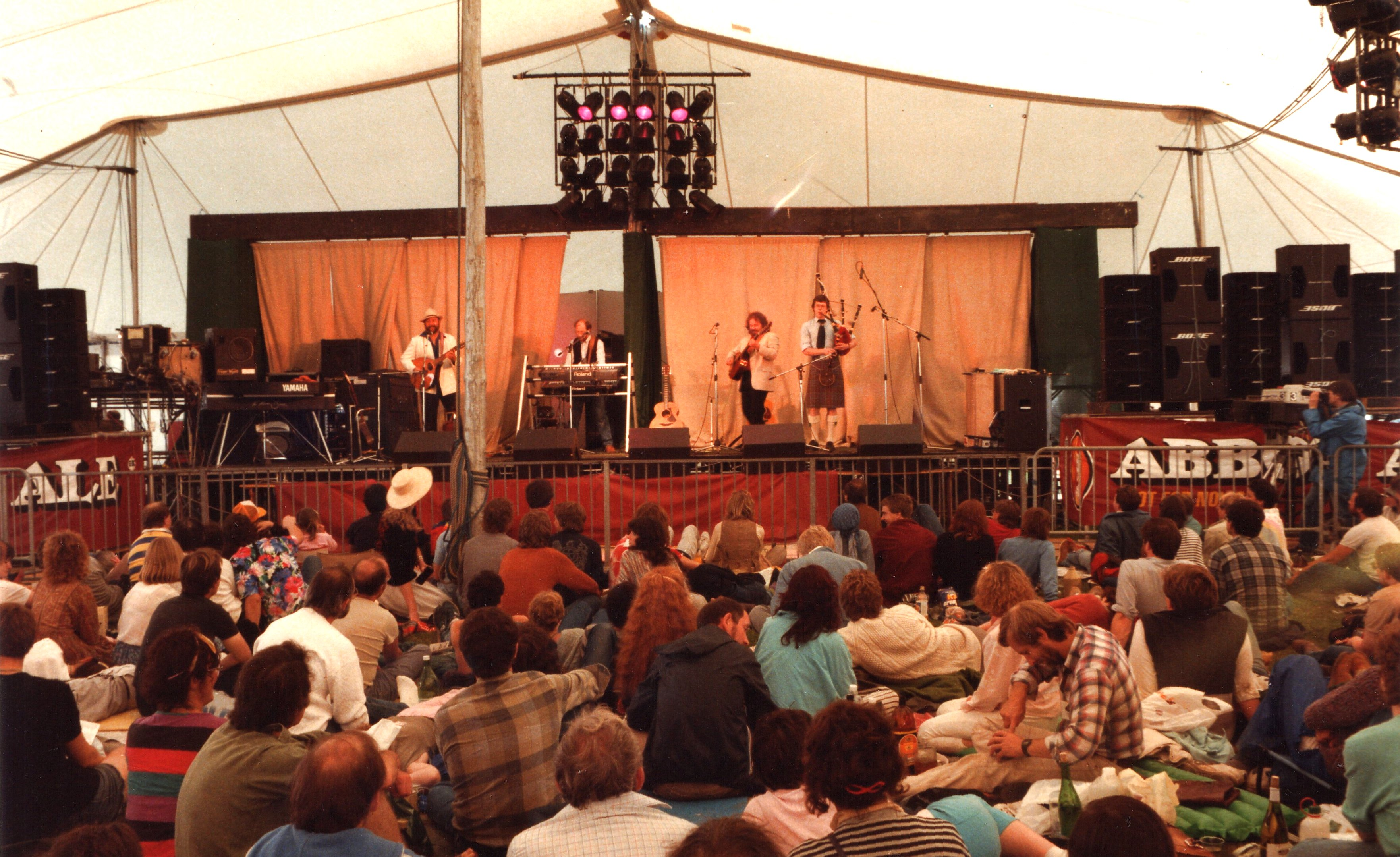 Scene at the 1985 Cambridge Folk Festival, U.K., with the Battlefield Band on stage (Tony Rees photograph)